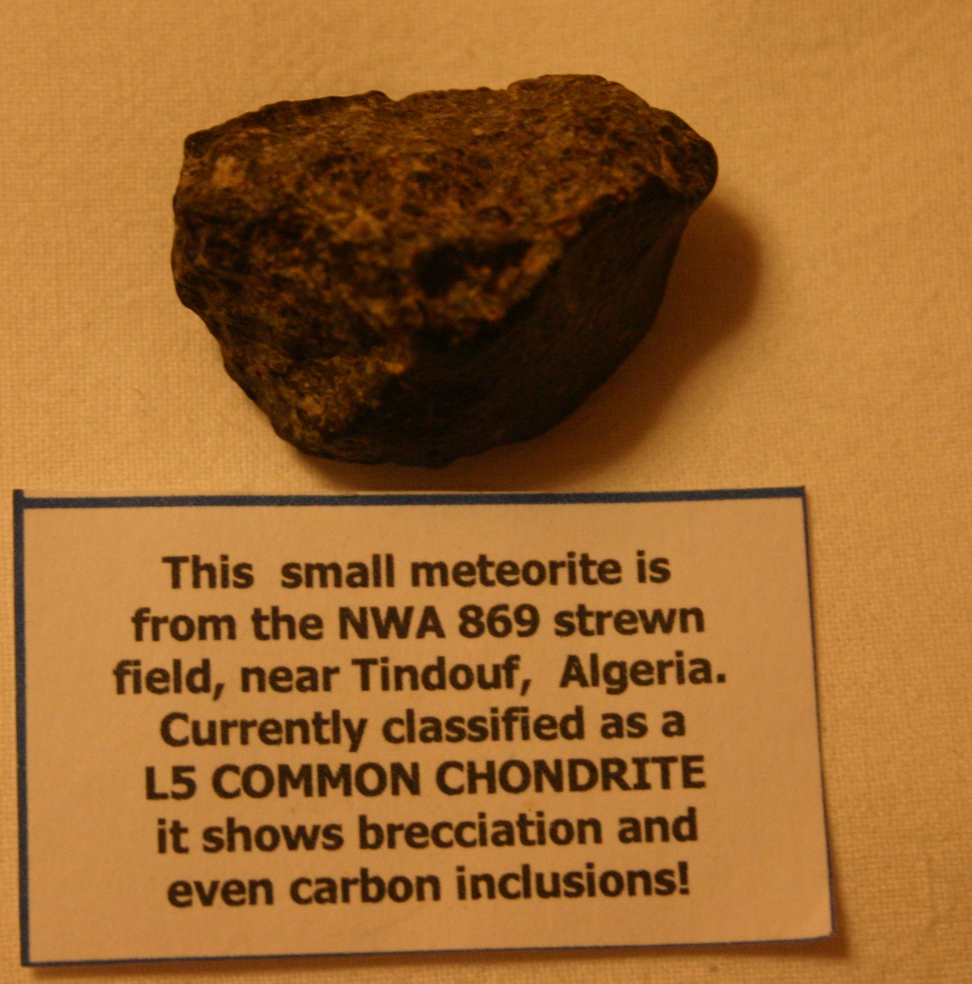 this small meteorite is from the NWA 869 strewn field, near Tindouf, Algeria. Currently classified as a L5 COMMON CHONDRITE it shows brecciation and even carbon inclusions!